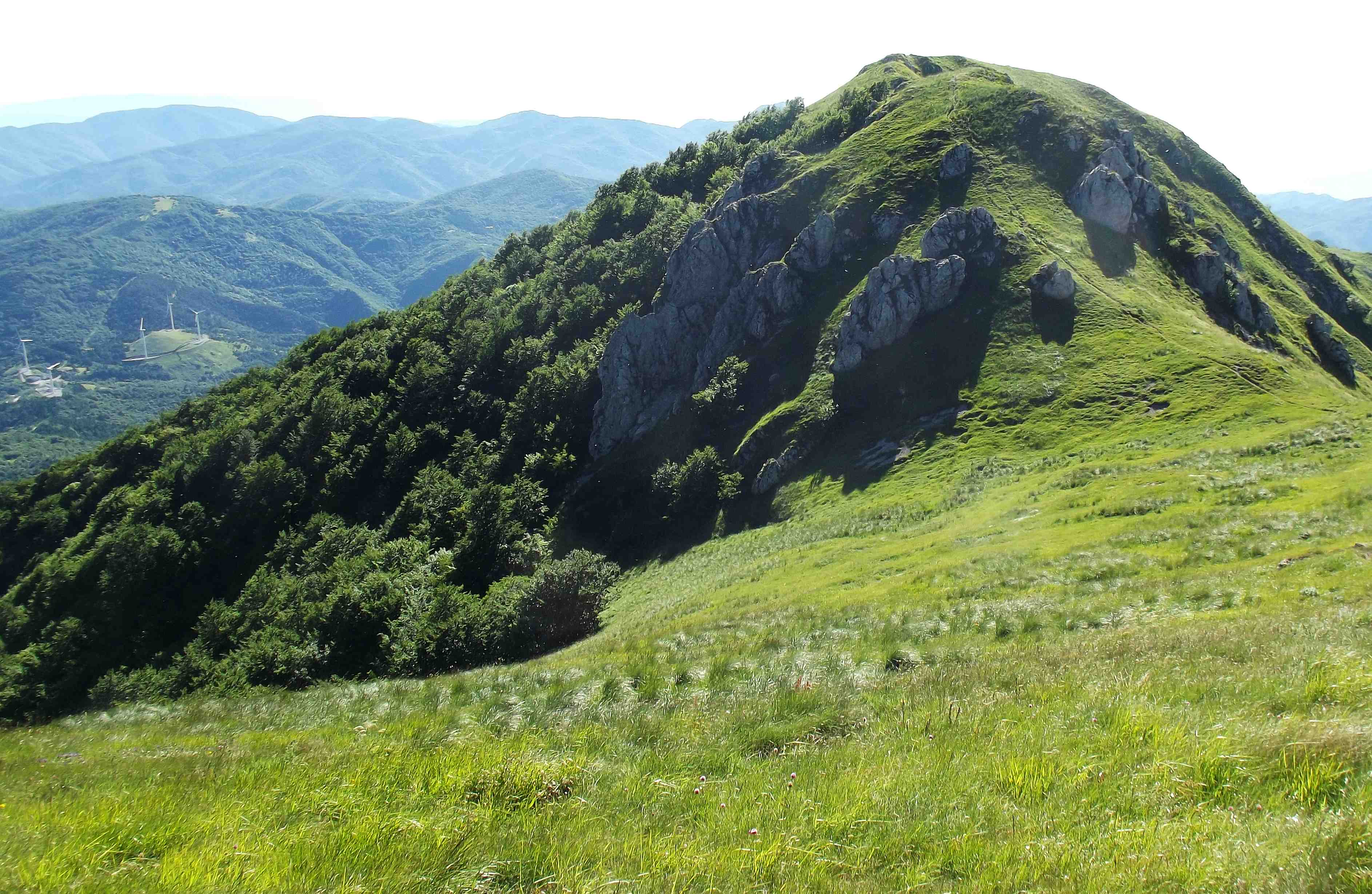 Mount Galero (Ligurian Prealps, Italy) west side